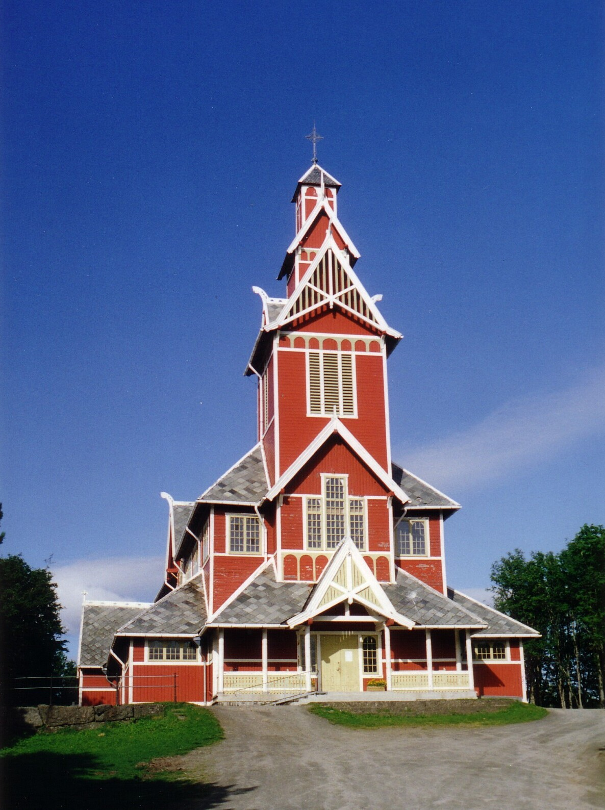 Buksnes Church in the county of Nordland, North Norway